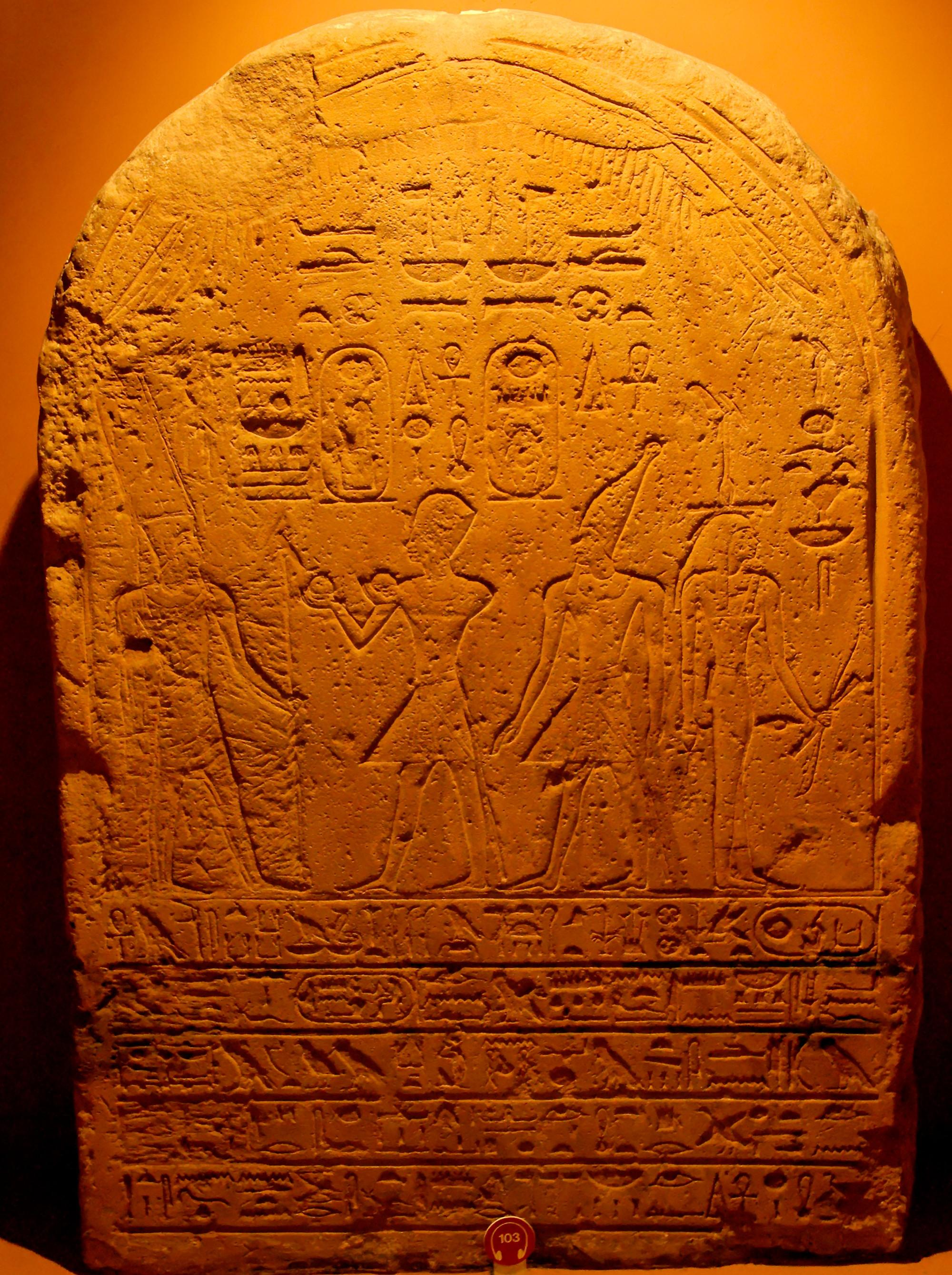 This is an important stela which dates to the period between the coregency of Hatshepsut and her stepson / possible son-in law (and successor) Thutmose III from the early 18th dynasty of Egypt. It depicts Hatshepsut (the female king on the centre left) and Thutmose III (behind her) who ruled together during the early New Kingdom.